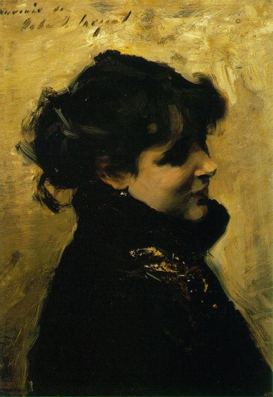 Madame Errazuriz John Singer Sargent -- American painter c. 1880-02 Private collection Oil on canvas 53.3 x 48.3 cm (21 x 19 in.) Jpg: Net Unknown